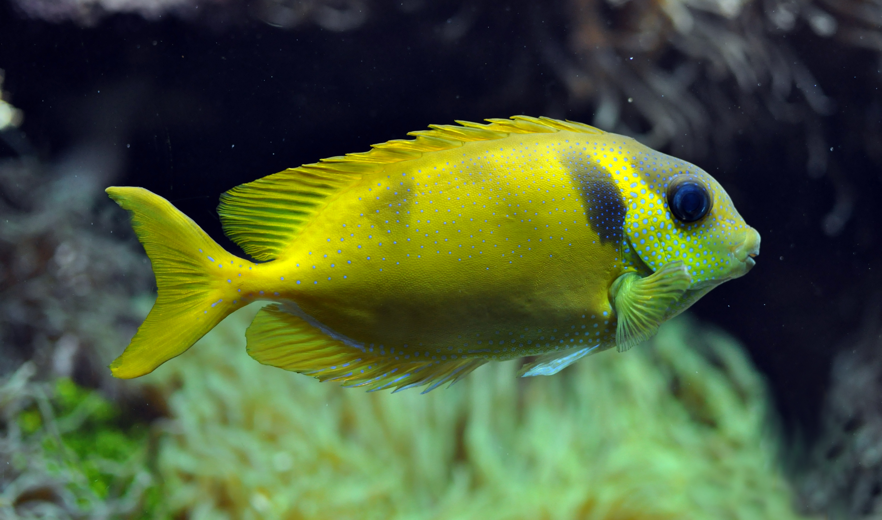 Siganus corallinus